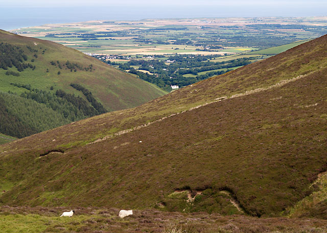 View north from track on Slieu Dhoo . Isle of Man. Looking between the slopes of Slieu Curn (on the left) and Slieu Dhoo north towards Jurby airfield and the coast.Photograph taken from the track linking the Slieu Curn and Slieu Dhoo unmetalled roads.